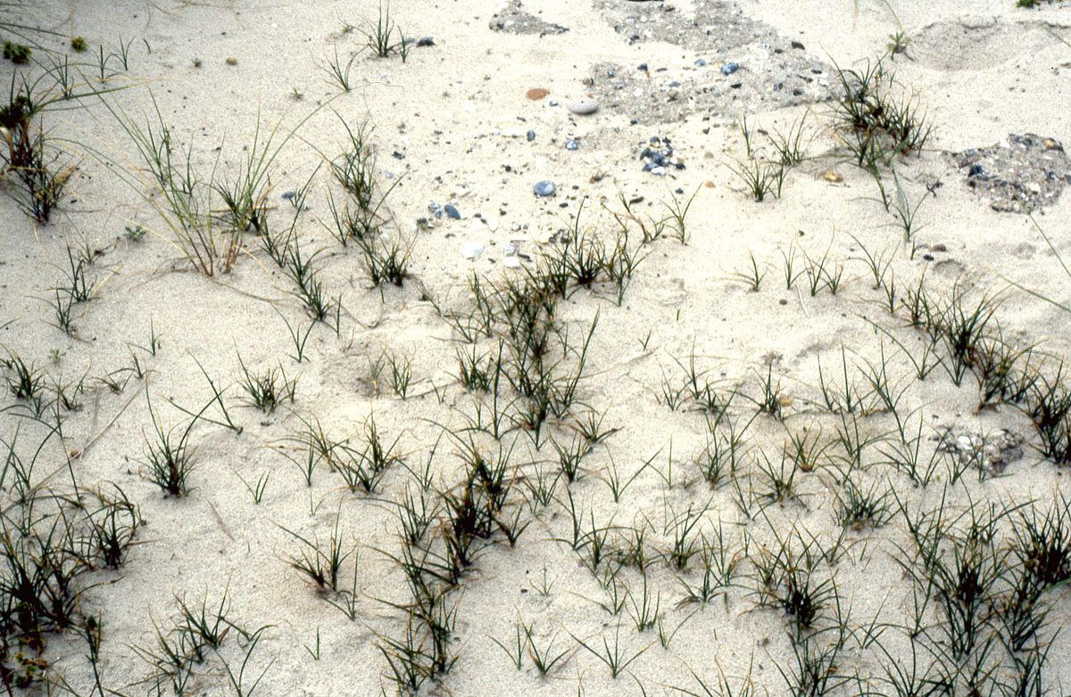 Carex arenaria, Heligoland (Germany)